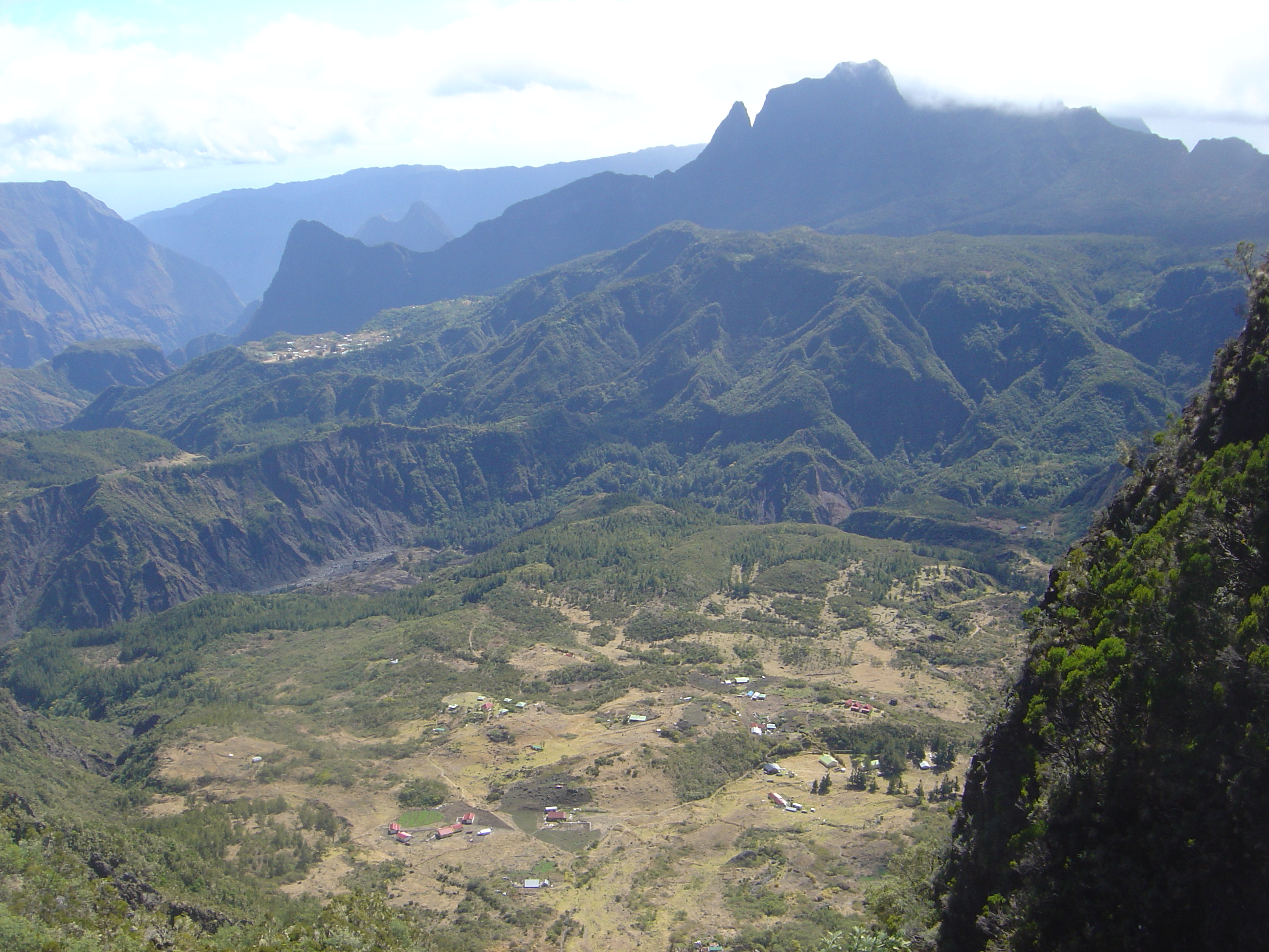 Cirque de Mafate, Réunion. The hamlet of Marla seen from the Taïbit pass.